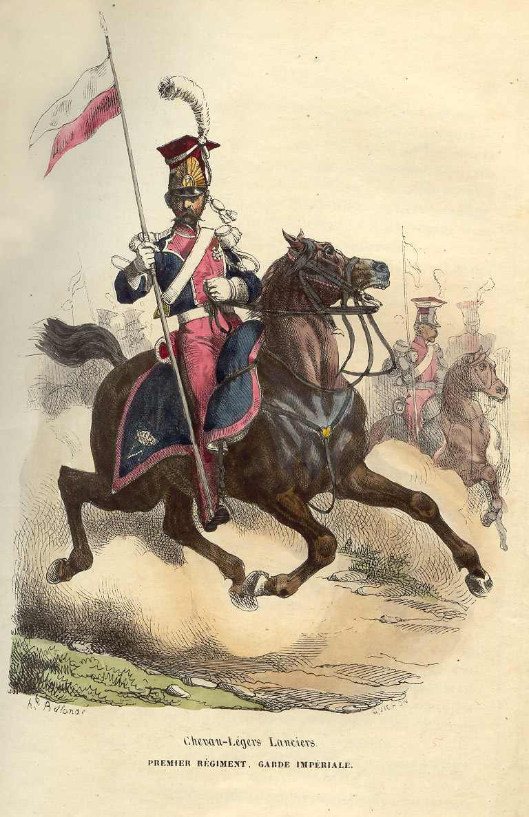 Light horse lancer from the Polish 1st Light Cavalry Regiment of the Imperial Guard, part of the Grande Armée. From book of P.-M. Laurent de L`Ardeche «Histoire de Napoleon», 1843